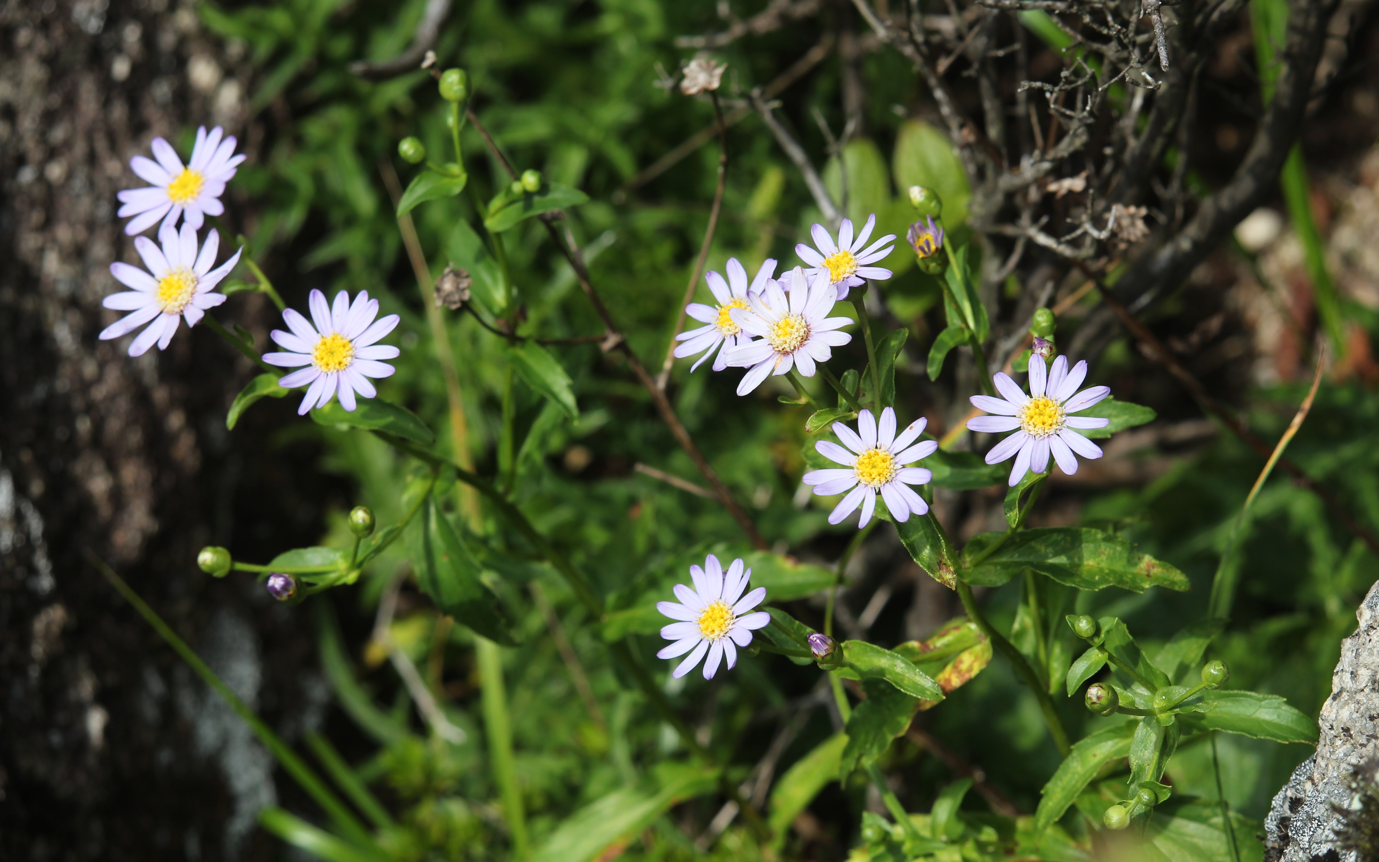 Aster komonoensis in Mount Gozaisho, Komono, Mie prefecture, Japan.